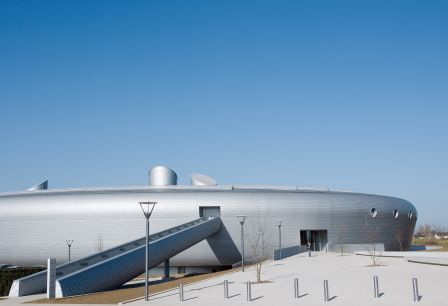 "Les Thermes" in Luxemburg